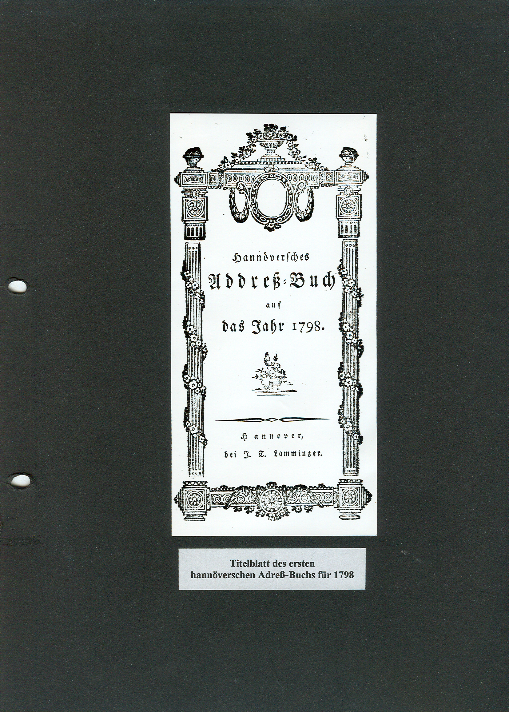 Ludwig Horner had photographed and monted on black paperboard the photo of the titel of the first adress book of Hanover of 1798 made and published by Johann Thomas Lamminger